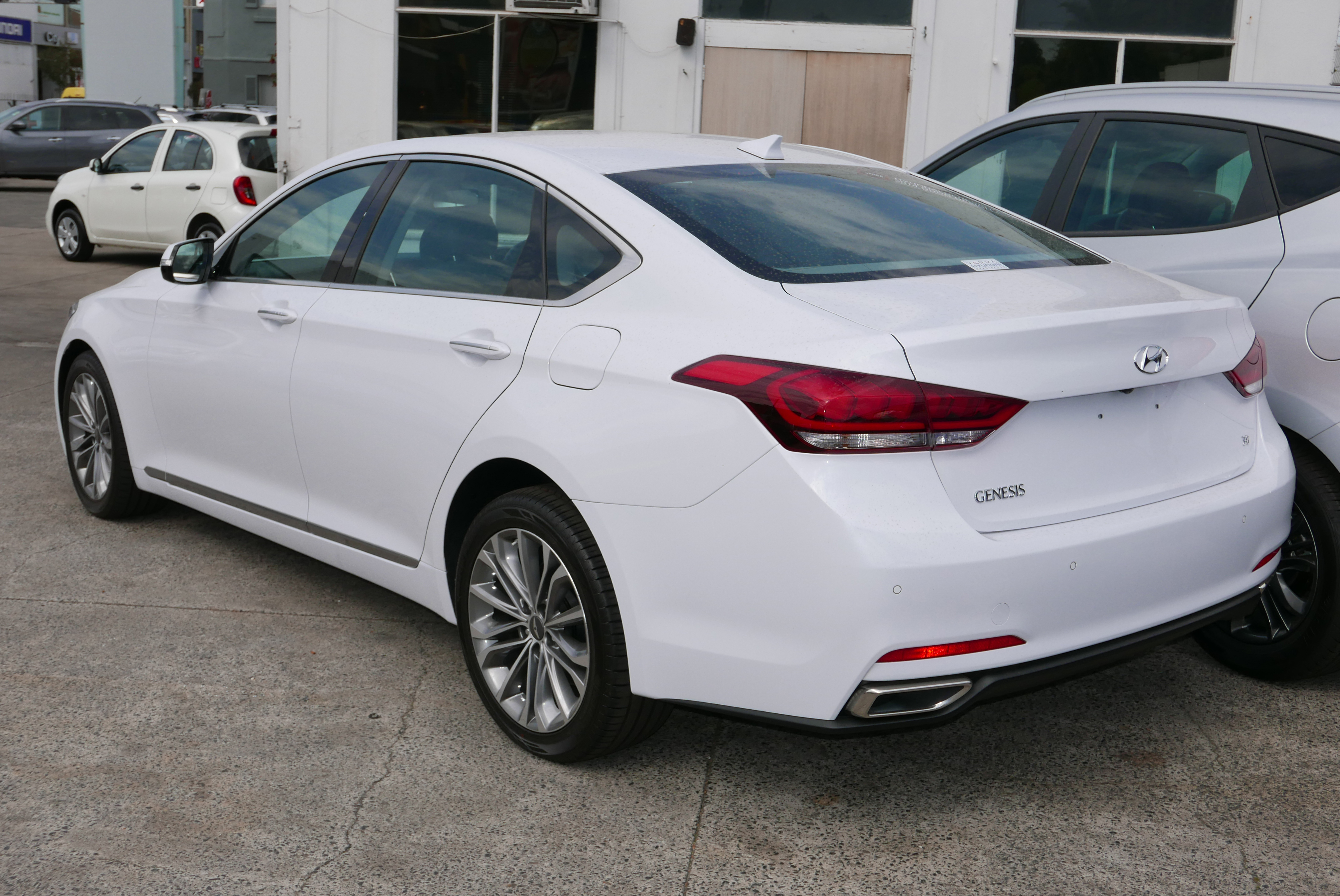 2014 Hyundai Genesis (DH MY15) sedan. This is the base model as per the lack of LED foglights, "Premium" leather upholstery, and button for the around-view monitor [1]. Photographed at Yarra Hyundai, Abbotsford, Victoria, Australia. Vehicle registration enquiry resultsJurisdictionVictoriaRegistrationAGT591Chassis codeKMHGN41EMFU046290Engine codeG6DJEA314887Compliance date2014-11Year of manufacture2014